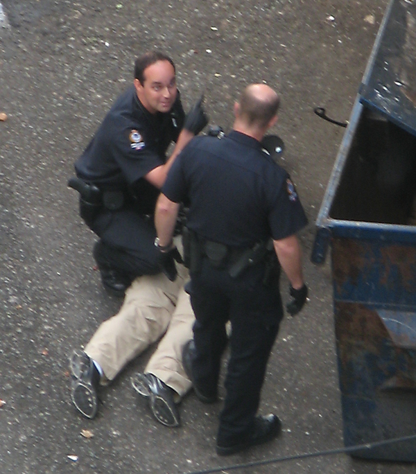 Vancouver police taking down a perp in the Downtown Eastside